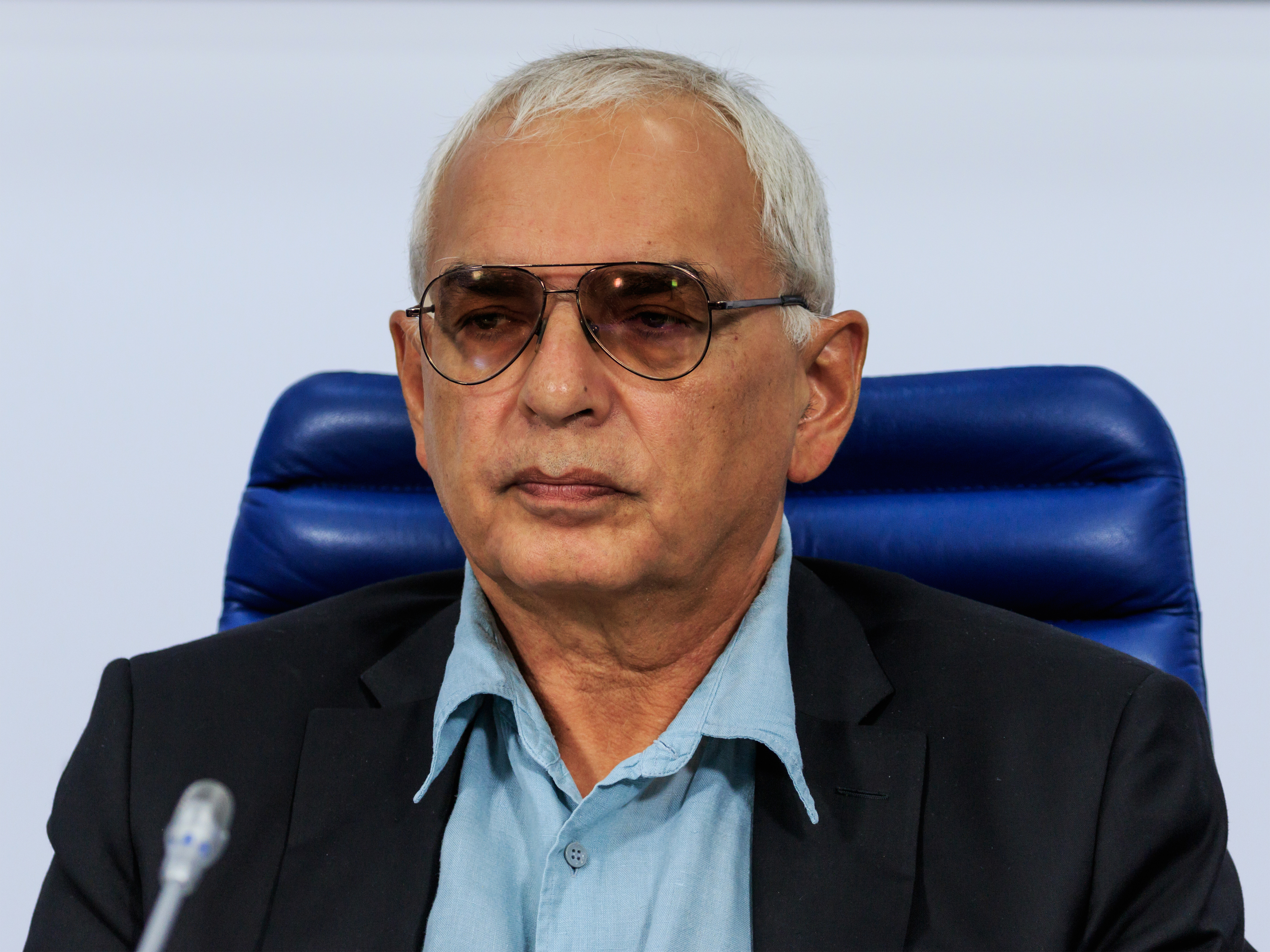 Karen Shakhnazarov (b. 1952) is a filmmaker from Russia